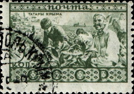 Stamp of the Soviet Union